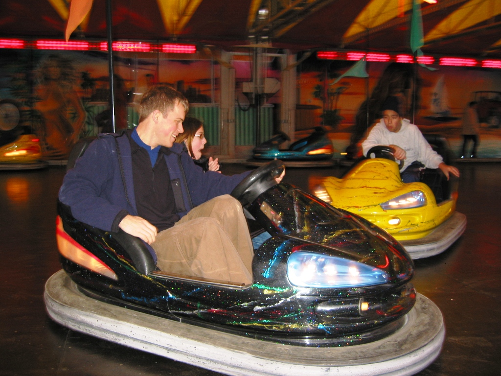 Bumper car at a small fair in Uzès, France. December, 2003. Stunt driver: Jmeppley.